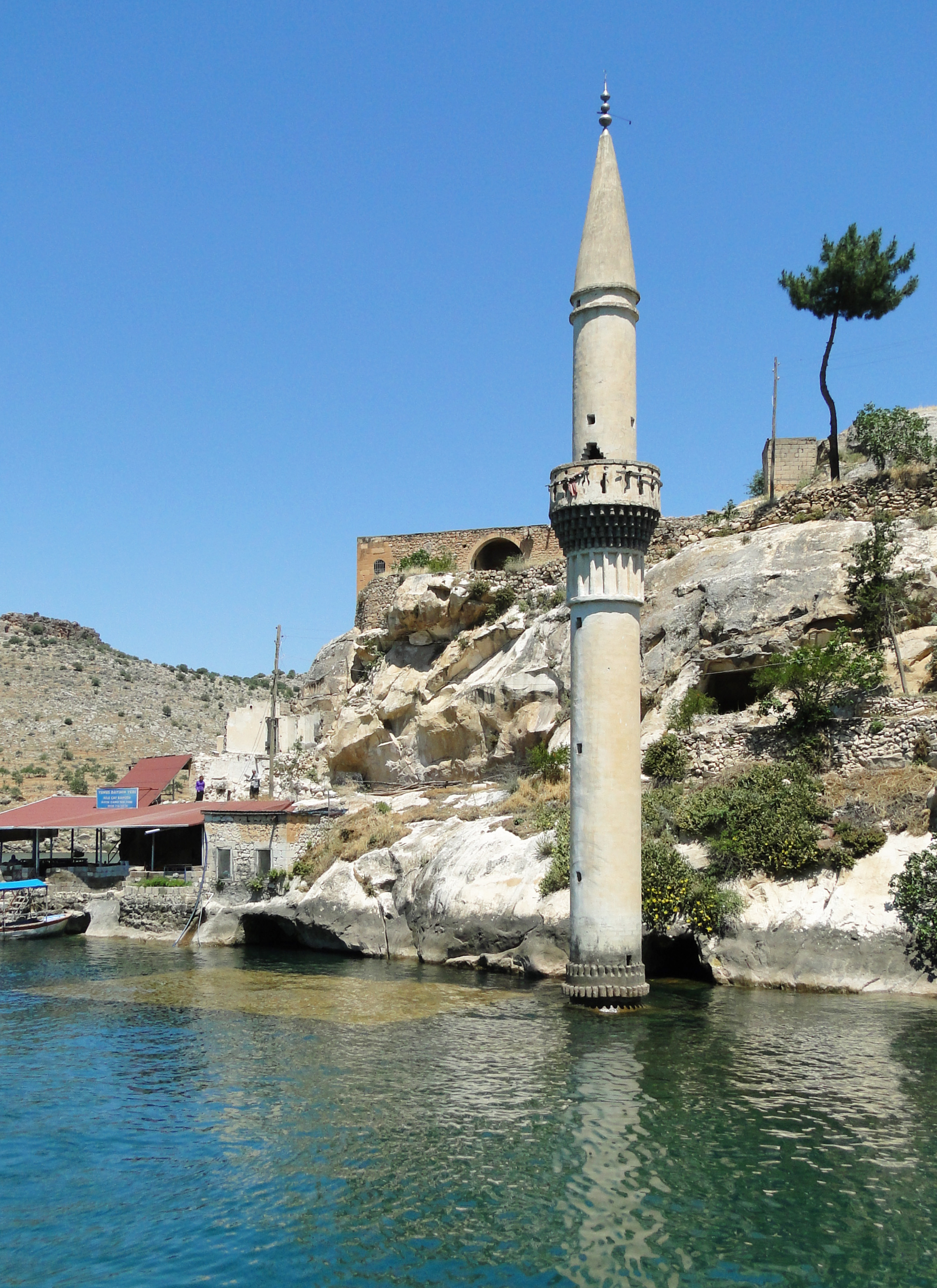 Submerged Mosque of Old Halfeti, Turkey